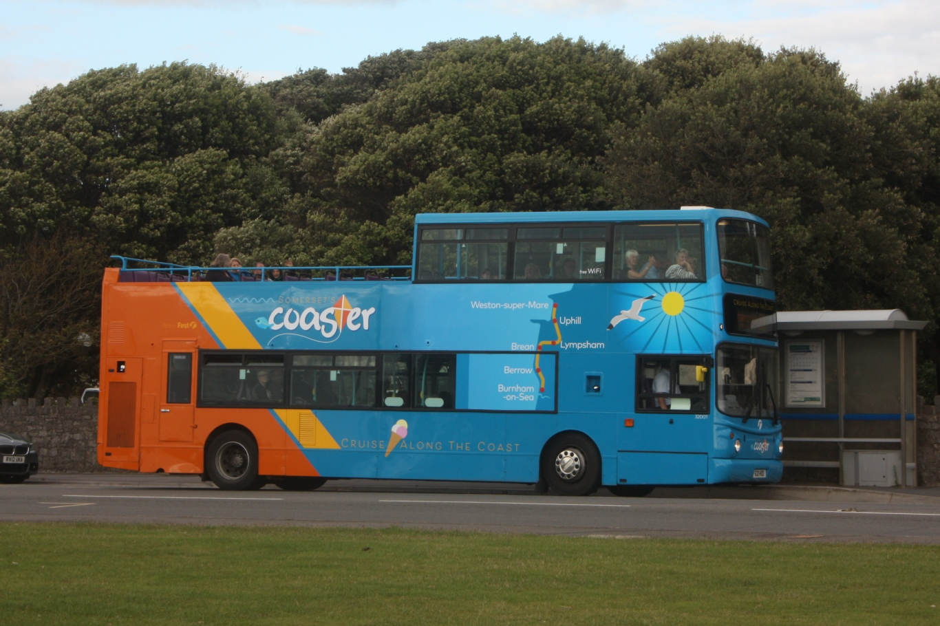 Newly converted for 'Somerset Coaster' services on route 20 to Burnham-on-Sea, First West of England's ALX400 32001 (registration 620HOD but originally W801PAE) is passing Ellenborough Park in Weston-super-Mare.